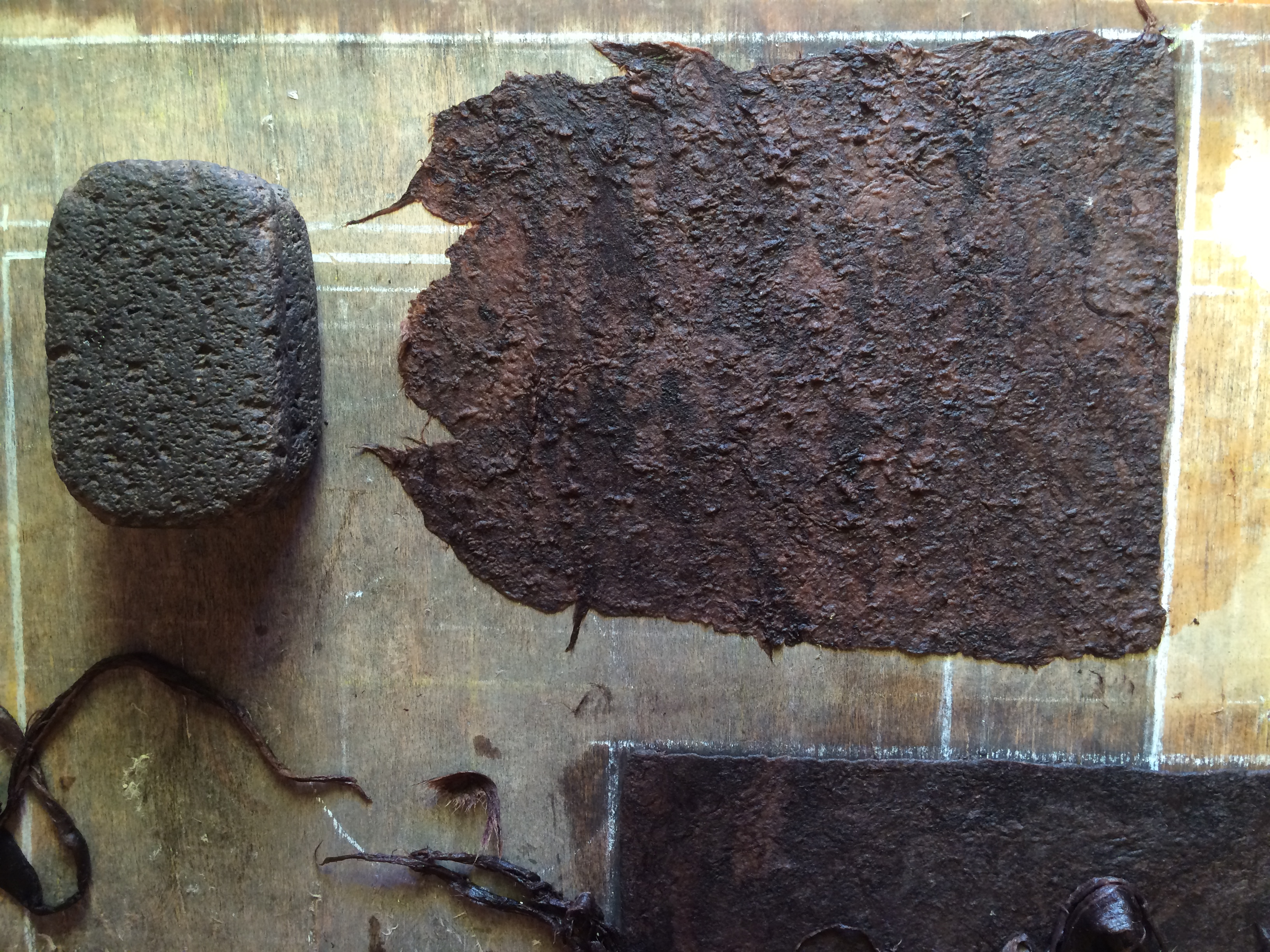 The fibers are flattened with a flat volcanic rock. The boards have chalk lines drawn on them that serve as guides to the craftspeople in giving the paper its rectangular shapes and specific dimensions.